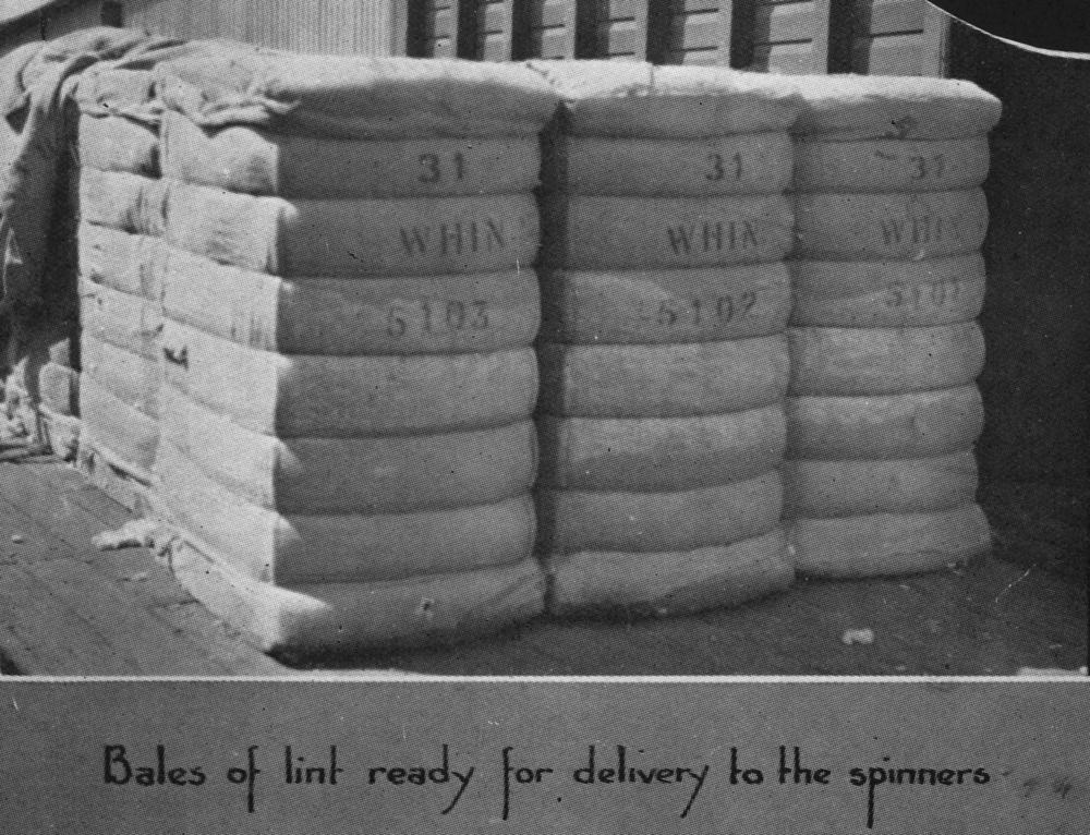 Processed bales of cotton lint, Brisbane, 1931 Bales of lint ready for delivery to the spinners. (Description taken from The Queenslander, 24 September 1931 p.20).